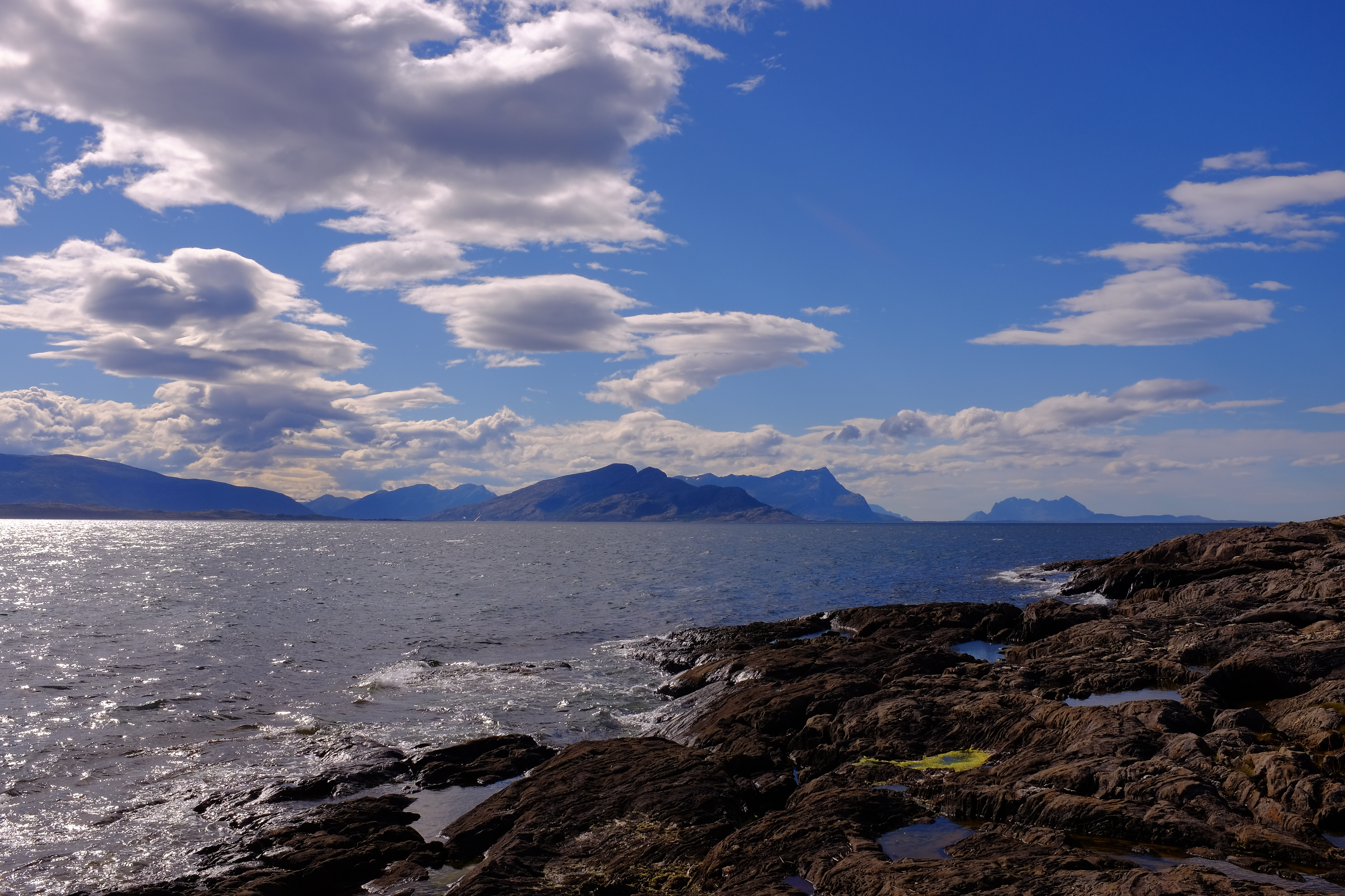 Saltfjorden or Saltenfjorden is a fjord in the municipalities of Bodø and Gildeskål in Nordland county, Norway.